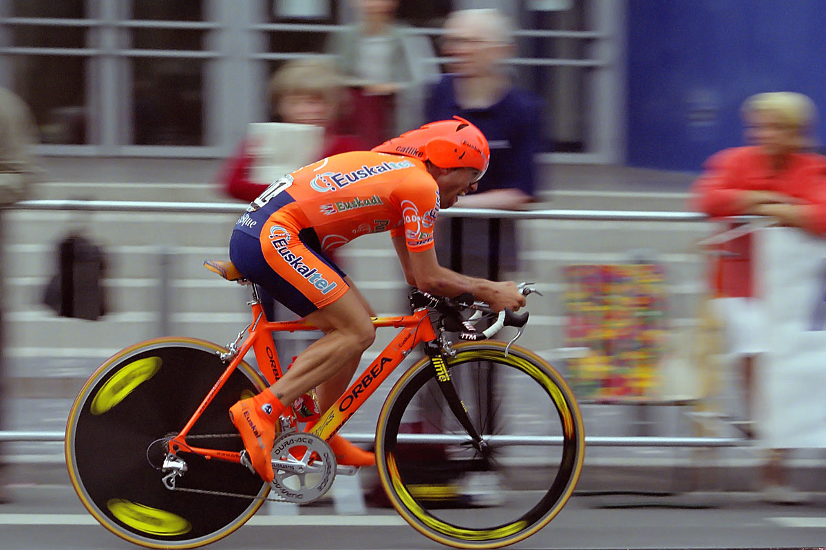 Euskatel-Euskadi rider at speed in the opening 8.2 km prologue of the 2001 Tour de France in Dunkerque.